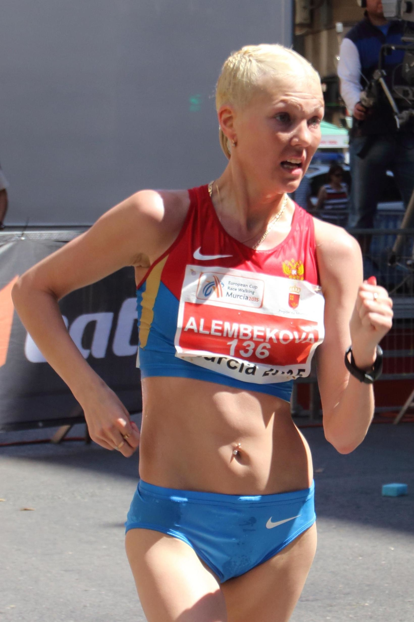 Elmira Alembekova, russian race walker, in the European Cup Race Walking 2015 (Murcia, Spain).